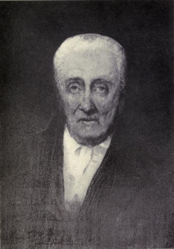 A portrait of Ebenezer Pemberton (1746-1835), 2nd Principal of Phillips Academy Andover from 1786-1793, by William Morris Hunt